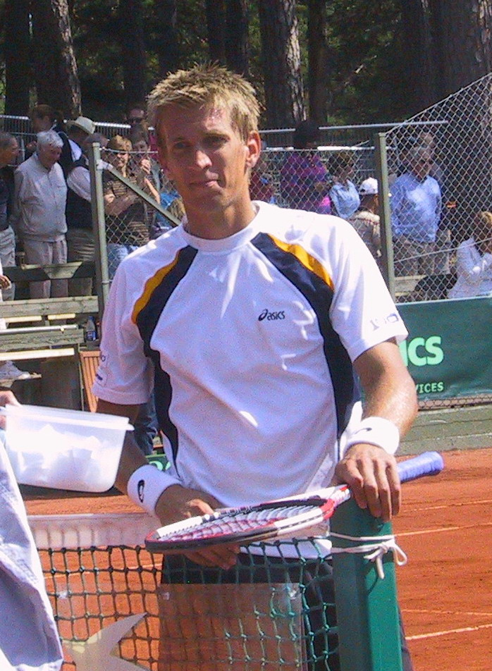 Tennis player Jarkko Nieminen in 2006, Hanko, Finland. The event was Davis Cup Finland-Algeria